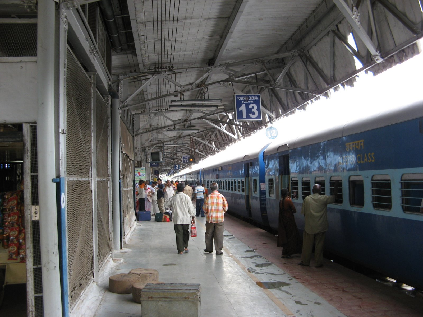 view of trichy junction